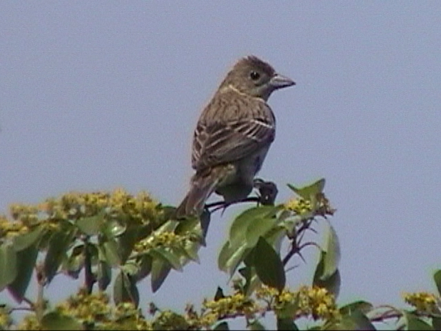 Женска черноглава овесарка, Калиакра, България, 2003